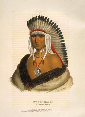 Petalesharro, a Pawnee Brave. Hand-colored lithograph, Plate 23. McKenney, Thomas L. & Hall, James. History of the Indian Tribes of North America. Philadelphia: F.W. Greenough, 1838-1844.